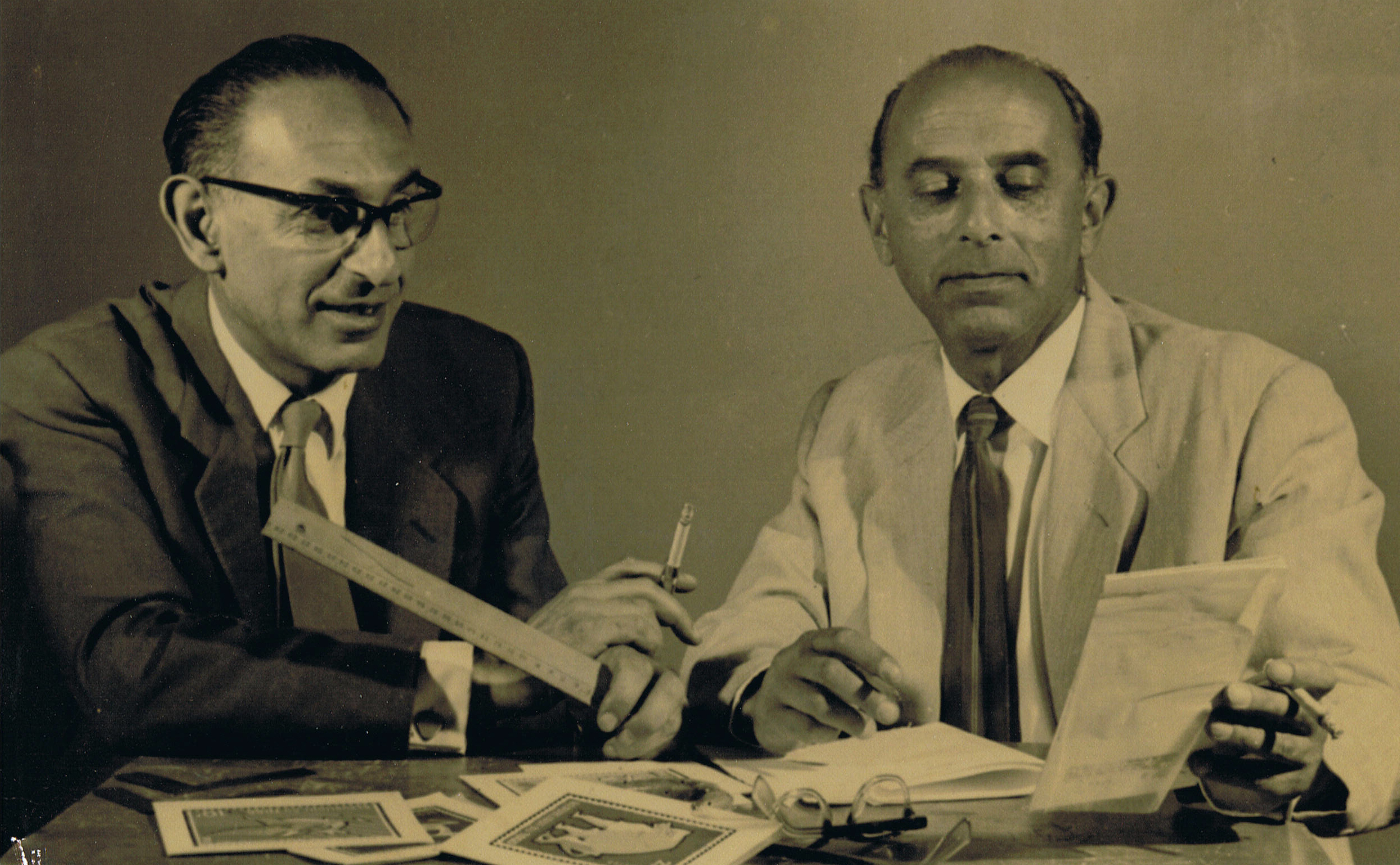 Photograph of Gabriel (on the right) and Maxim Shamir at work in the "Shamir Brothers Studio", 1970's.